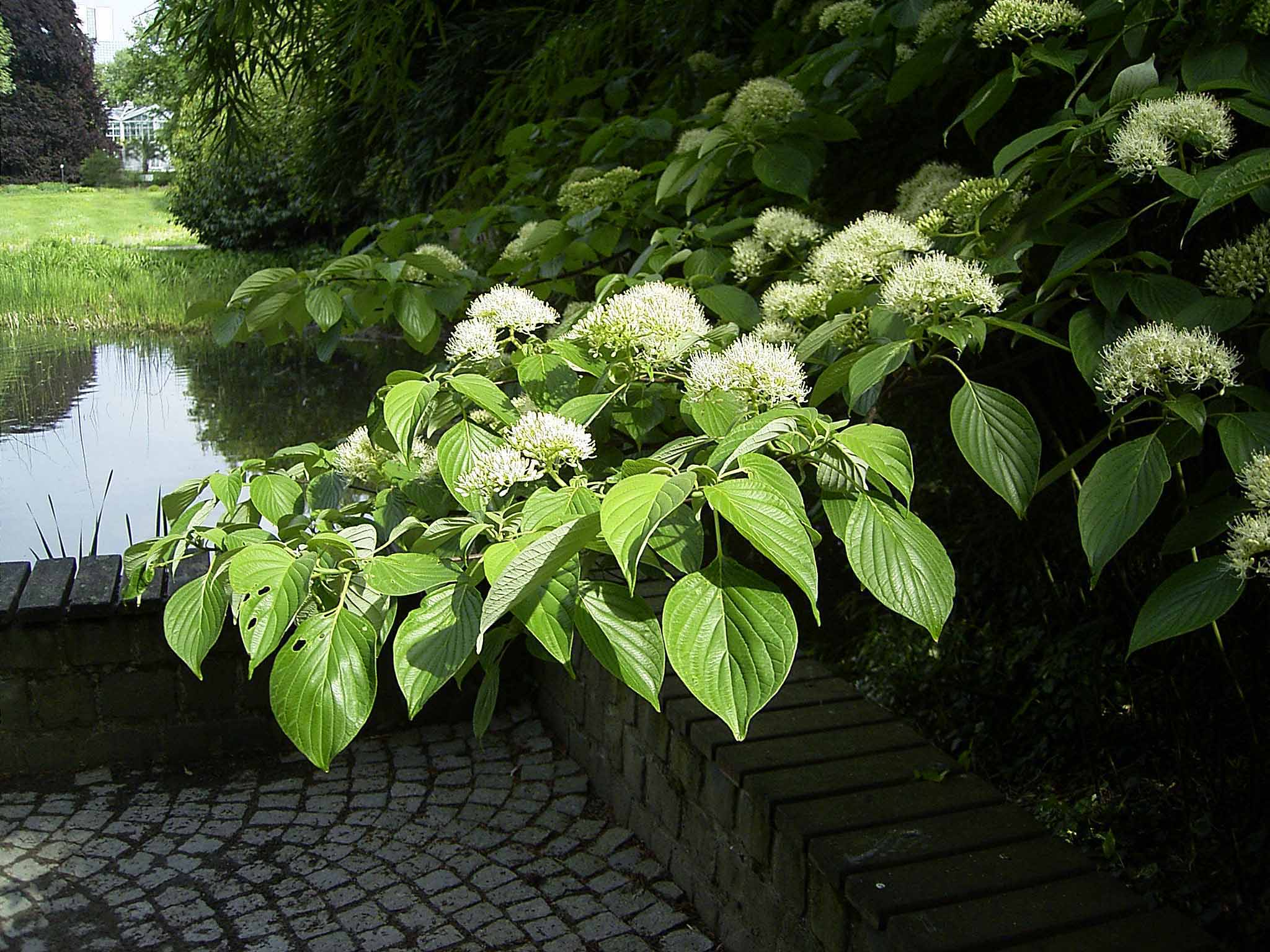 Cornus controversa Pagoden-Hartriegel Fotografiert Mai 2003 in Frankfurt / Main